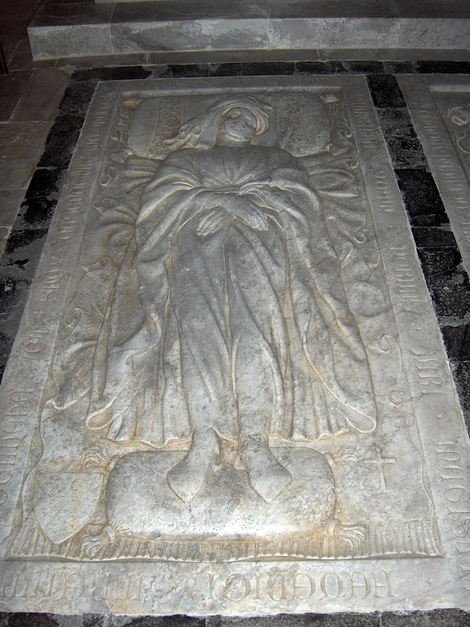 Lorenzo Trenta tomb in the basilica of San Frediano; Lucca, Italy Carved by Jacopo della Quercia (1416). Own photo - photo made by Georges Jansoone on 10 October 2005